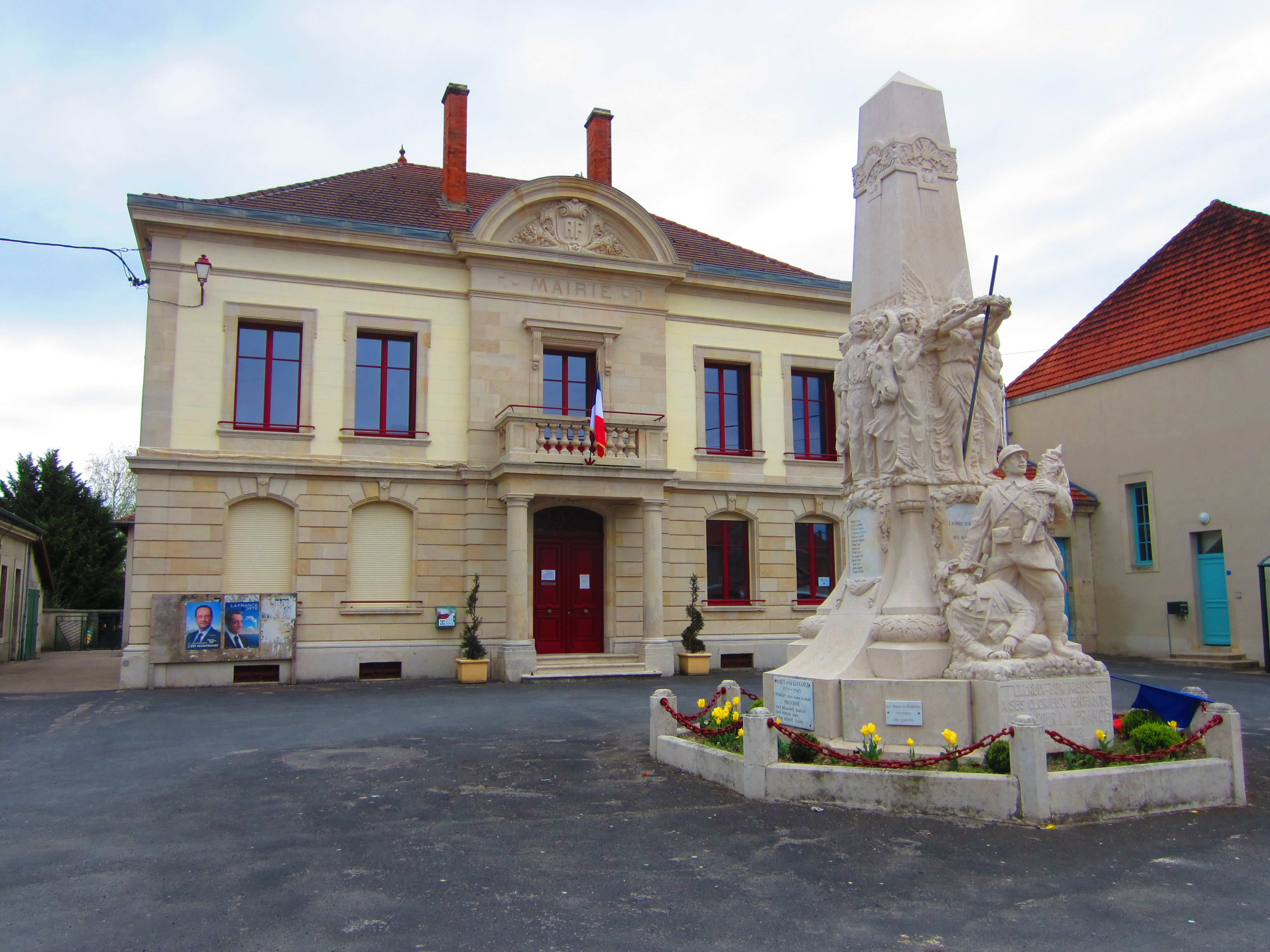 Lacroix Meuse town council